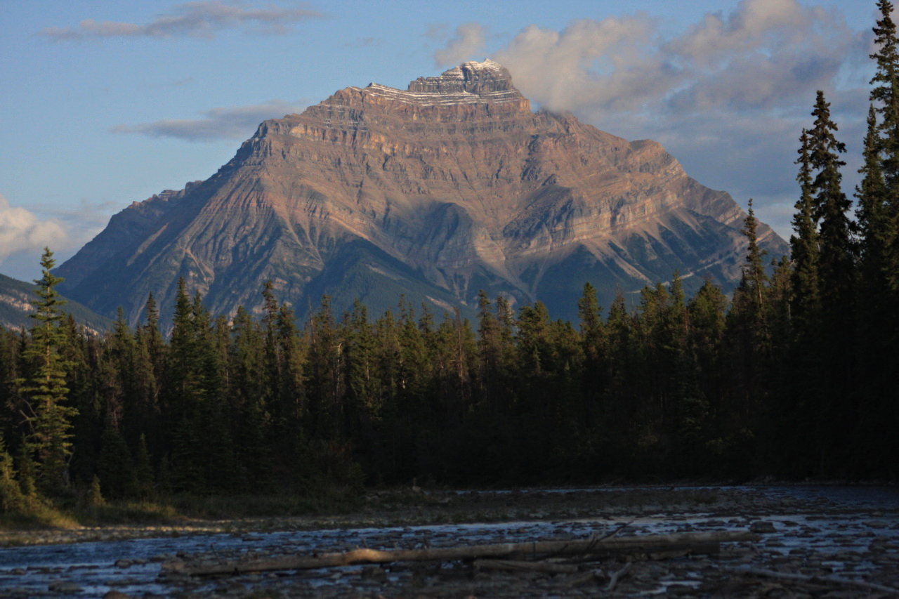 Mount Kerkeslin in Jasper National Park